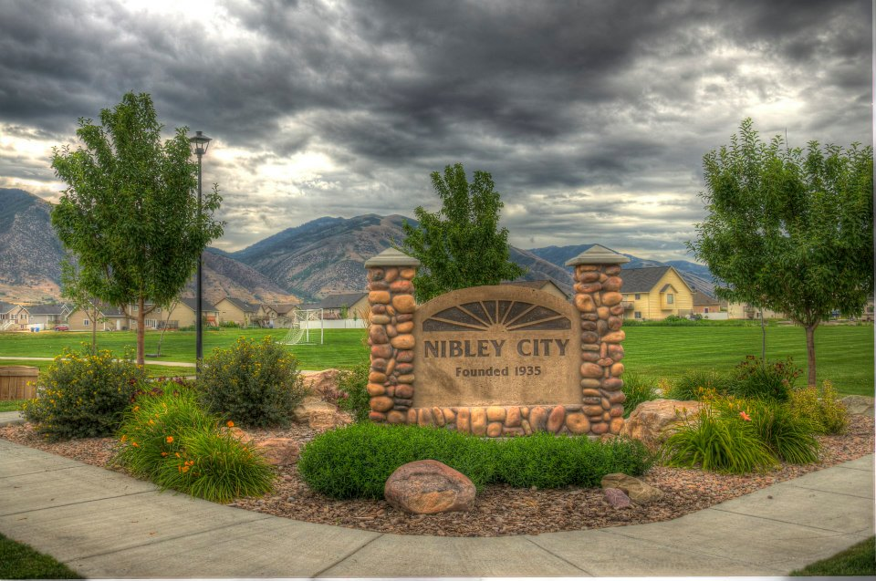 Nibley City gateway at Clear Creek Park.